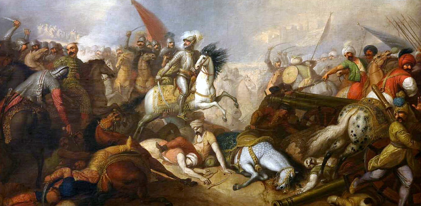 Battle of Khotyn (1673)